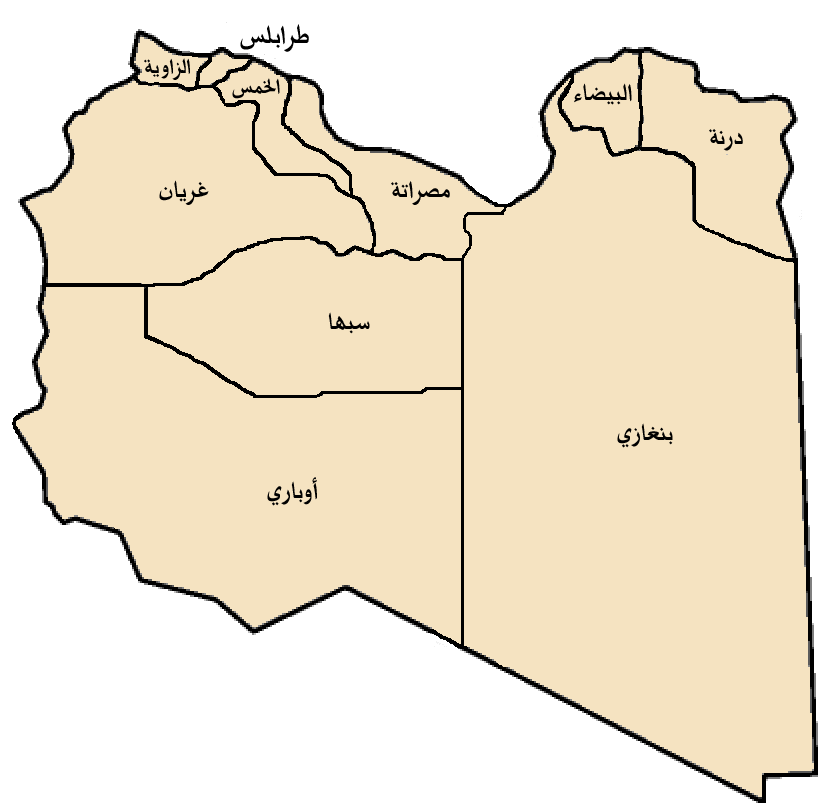 The governorates of Libya from 1963 to 1984, then change the name of Bayda Governorate to Jabal al Akhdar Governorate, and Gharyan governorate to Al Jebal al Gharbi governorate .